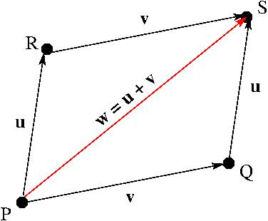 Illustrating vector addition in affine geometry.